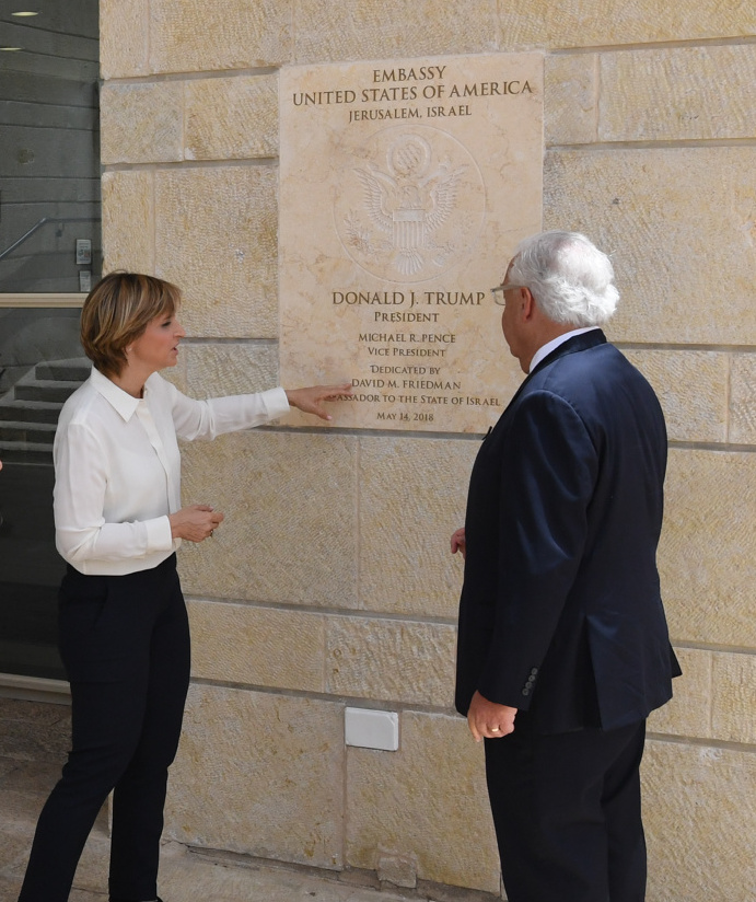 Ambassador Friedman interviews to Ch10 and Ch 2 in Arnona, Jerusalem